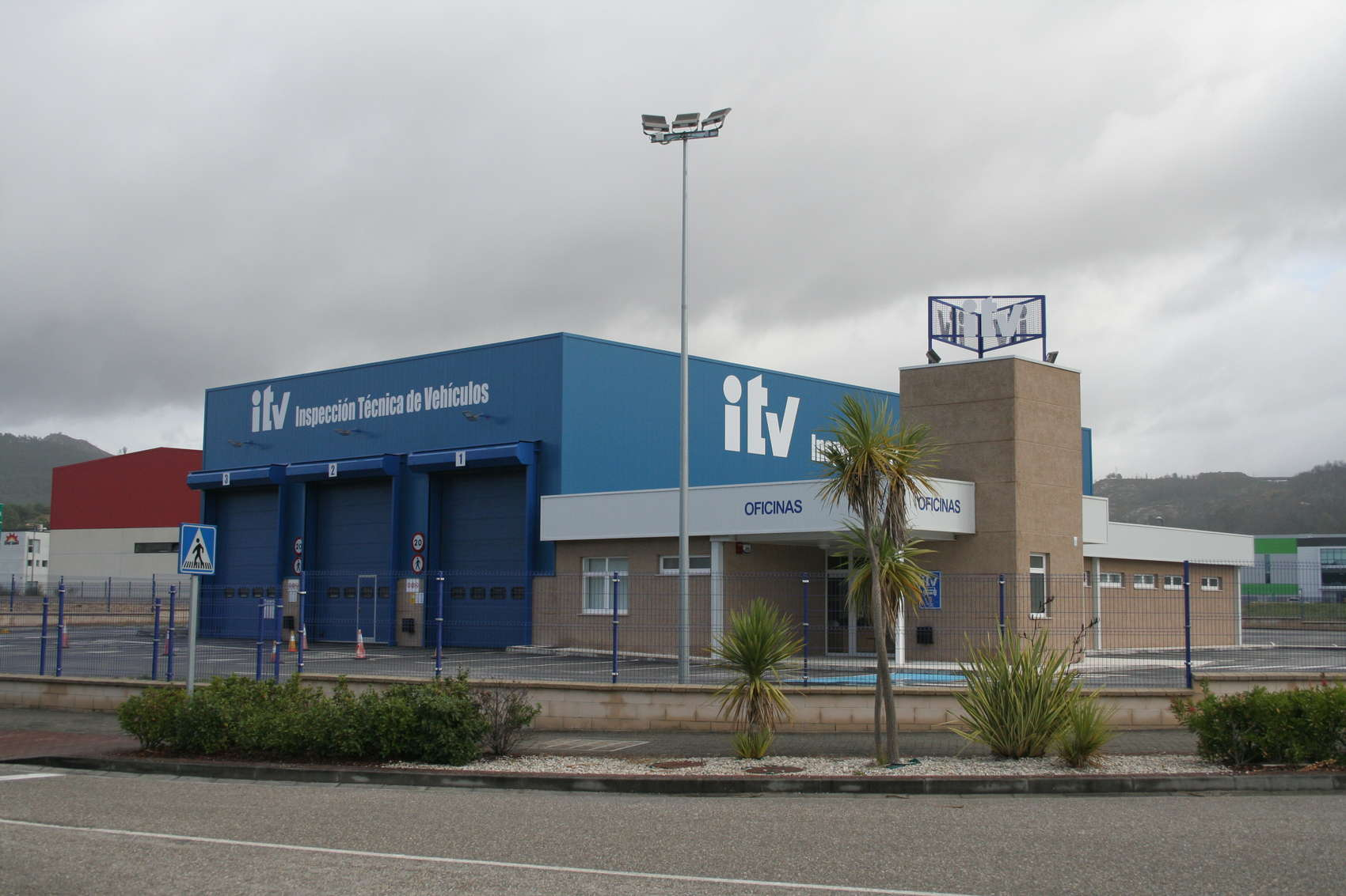 Vehicle inspection in Nigrán (Spain)